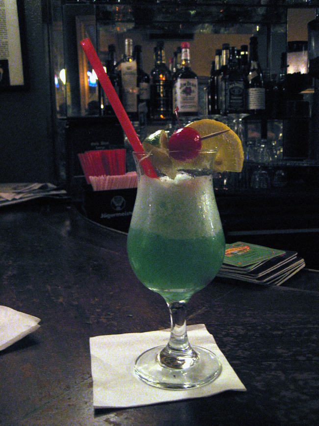 Photo taken by myself on July 6, 2007 at Gold Dust bar in San Francisco, CA.